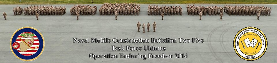 NMCB 25 battalion photo before Afghanistan deployment